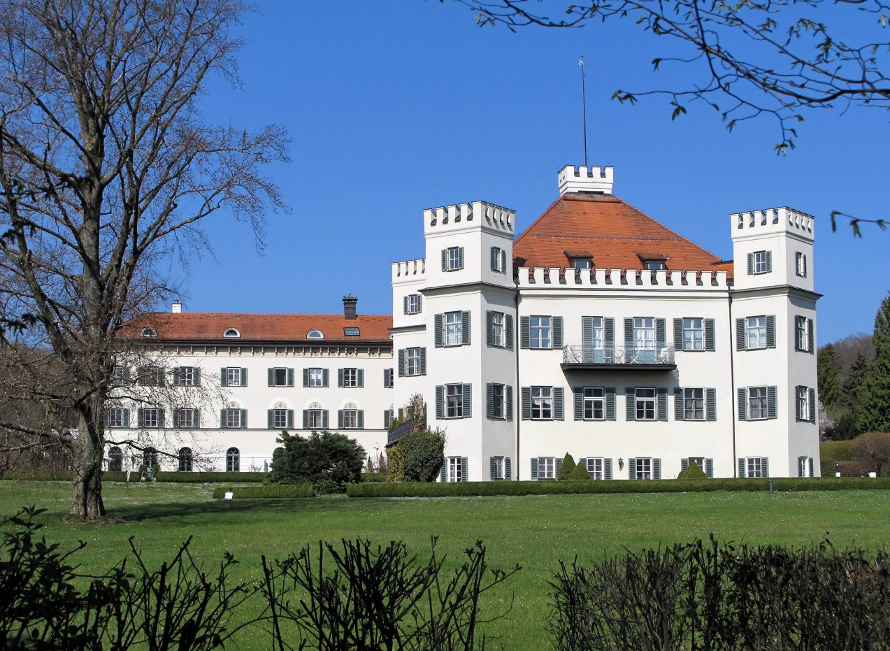 castle Possenhofen, view from East